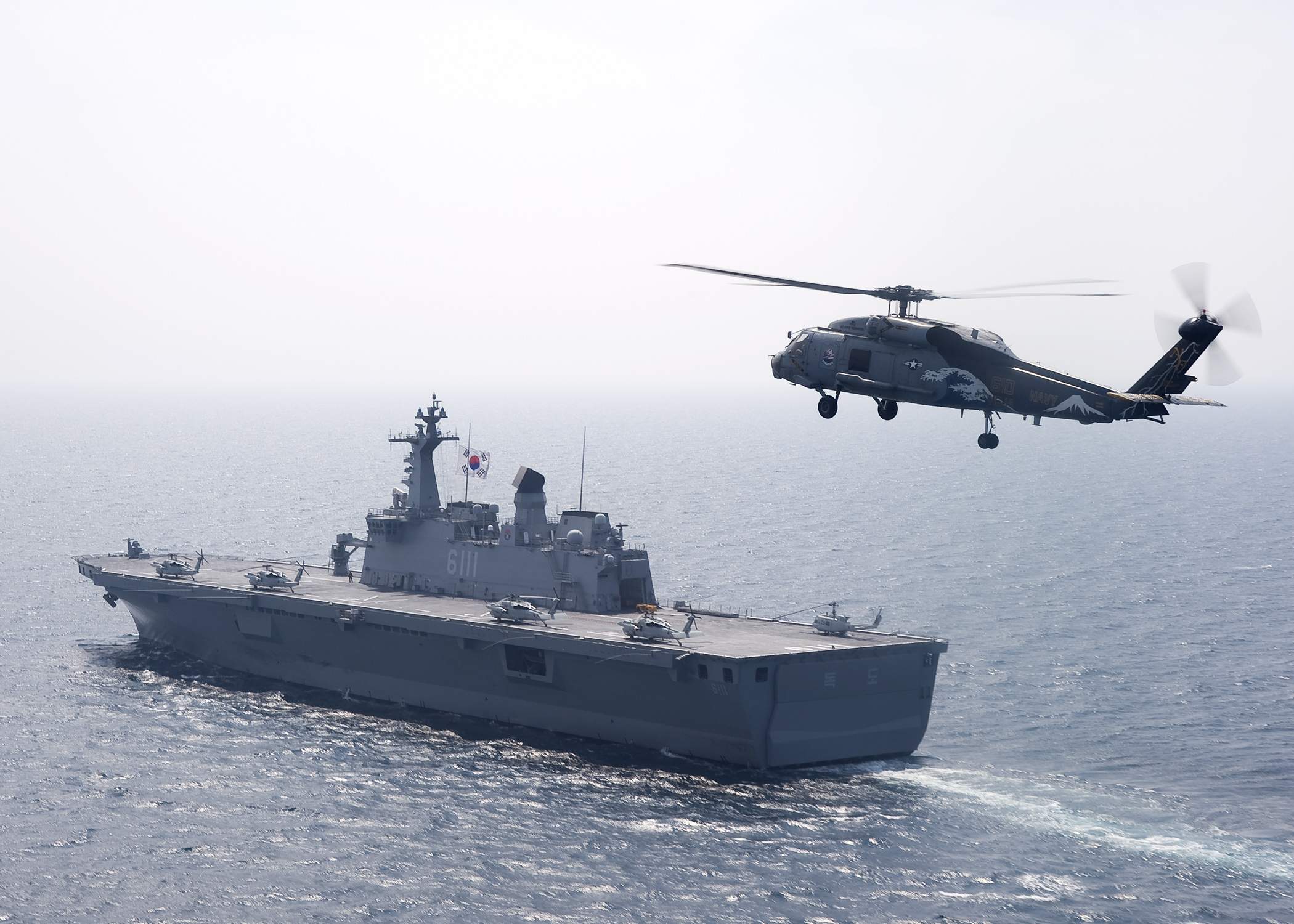 EAST SEA (July 27, 2010) An SH-60F Sea Hawk helicopter assigned to the Chargers of Helicopter Anti-Submarine Squadron (HS) 14 flies by the Republic of Korea Dokdo-class amphibious assault ship Dokdo (LPH 6111) as it cruises through the East Sea. The Republic of Korea and the United States are conducting the combined alliance maritime and air readiness exercise "Invincible Spirit" in the seas east of the Korean peninsula from July 25-28, 2010. This is the first in a series of joint military exercises that will occur over the coming months in the East and West Seas. (U.S. Navy photo by Mass Communication Specialist 3rd Class Charles Oki/Released)